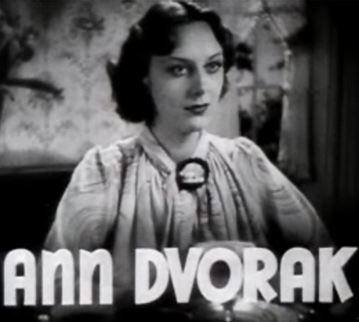 Cropped screenshot of Ann Dvorak from the trailer for the film Housewife